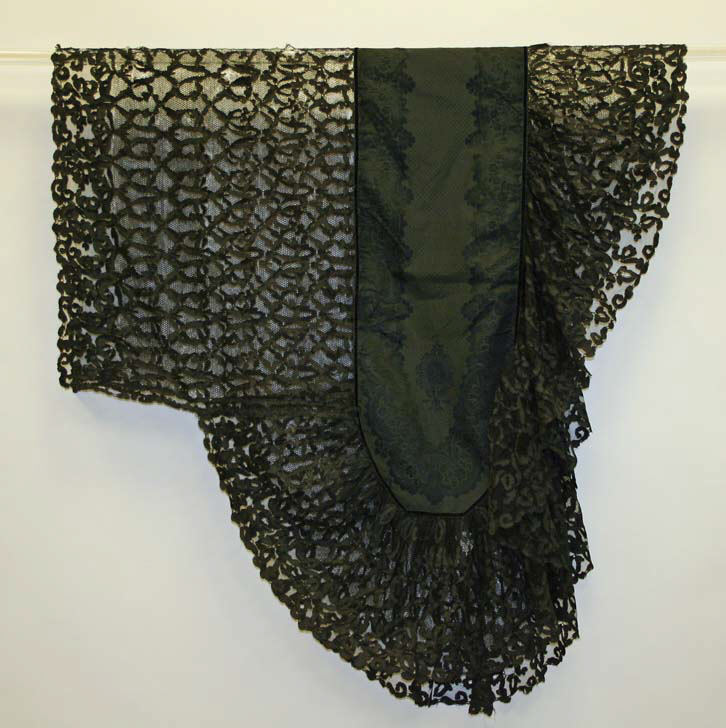 Spanish; Mantilla